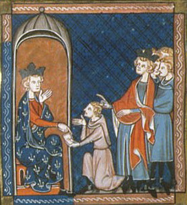 Seventh Crusade 1248/49: Louis IX of France and the king of Cyprus (Henry I) dismissing the envoys. (British Library, Royal 16 G VI f. 407v)